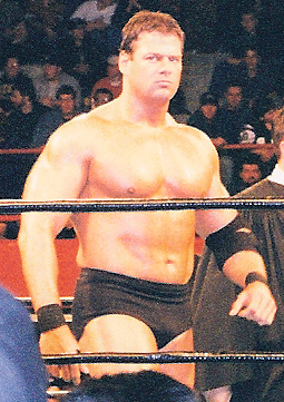 An image of professional wrestler Mike Awesome from December 1999.